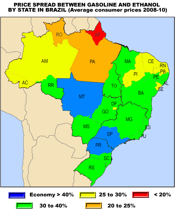 Map showing consumer price spread between gasoline E25 and ethanol E100 in Brazil by state. Data taken from the Brazilian Agencia Nacional de Petroleo, for week 26/10-01/11-2008. Publicly available data at ANP web site. Graphic design by the author with Photoshop using Brazilian template available at WikiCommons